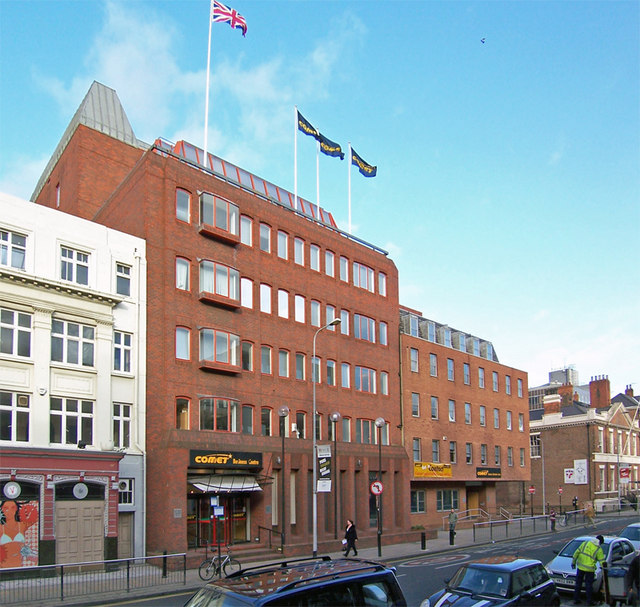 The Comet Building, George Street, Hull Pevsner says "On the N side is the much praised COMET BUILDING, 1981-2 by Elsworth Sykes, five floors of red brick, with two more floors accommodated in the glazed mansard roof. The ground floor projects with recessed windows divided by tall brick piers. The upper floors have rows of eleven windows, with a projecting bay second from the l."